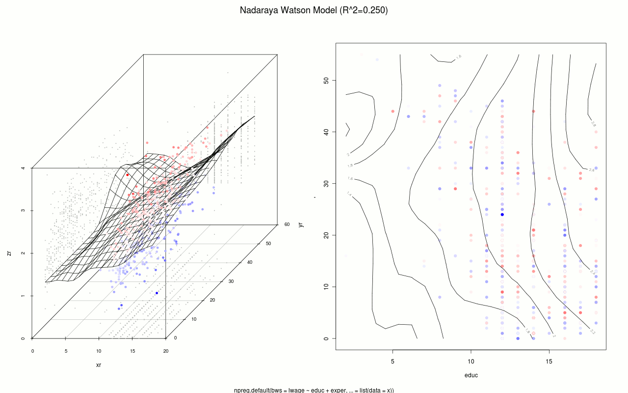 Nadaraya-Watson estimator of log hourly wages by education and experience from CPS 1985 data, see Mincer (1974).